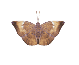 Euthalia garuda Baron picture made by self (L. Shyamal)